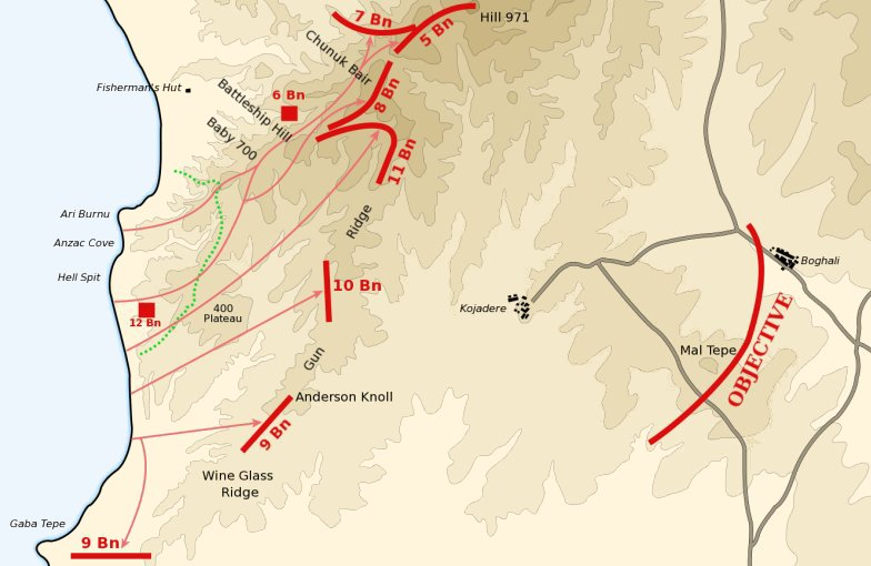 Map of the planned landing of the 2nd and 3rd Brigades of the Australian 1st Division north of Gaba Tepe on April 25, 1915 during the Battle of Gallipoli. The red lines mark the first day objectives. The dotted green line marks the advance achieved on the first day. Contours are at 50 metre intervals. Derived from Map No. 7 in Ch.11, Vol. I "The Story of Anzac" of the Official History of Australia in the War of 1914-18 by C.E.W. Bean.